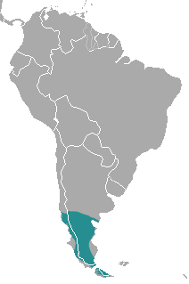 Southern River Otter (Lontra provocax) range